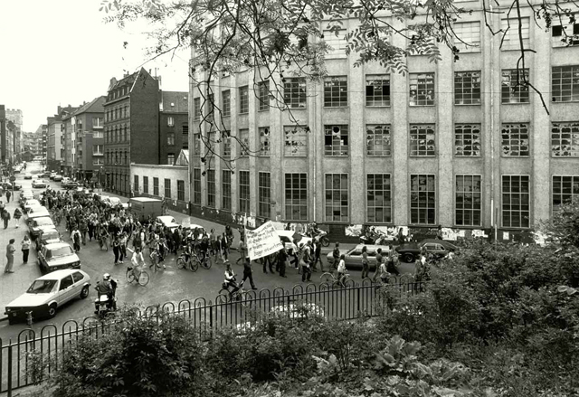 Demonstration related to the squatting of the former Stollwerck-Factory in Cologne, Severinswall